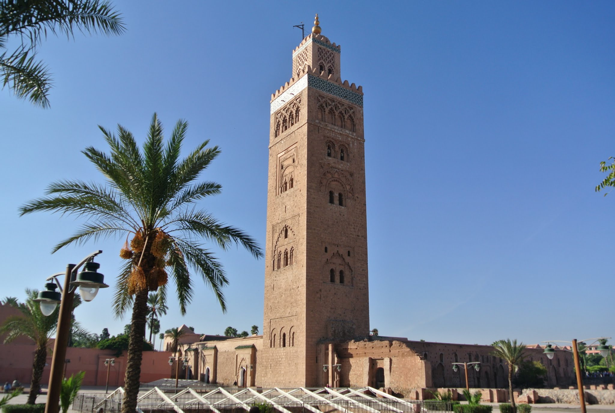 Arset El Bilk, Marrakesh, Morocco